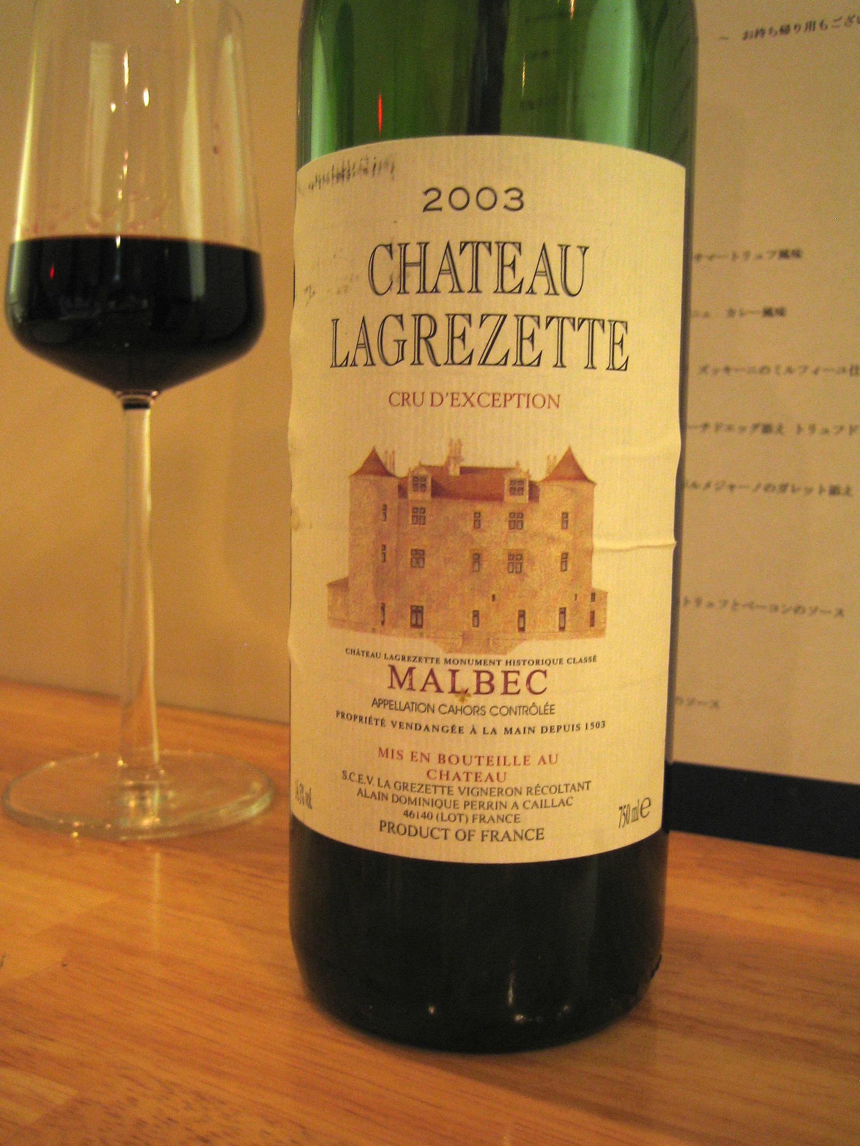 French malbec wine from Cahors